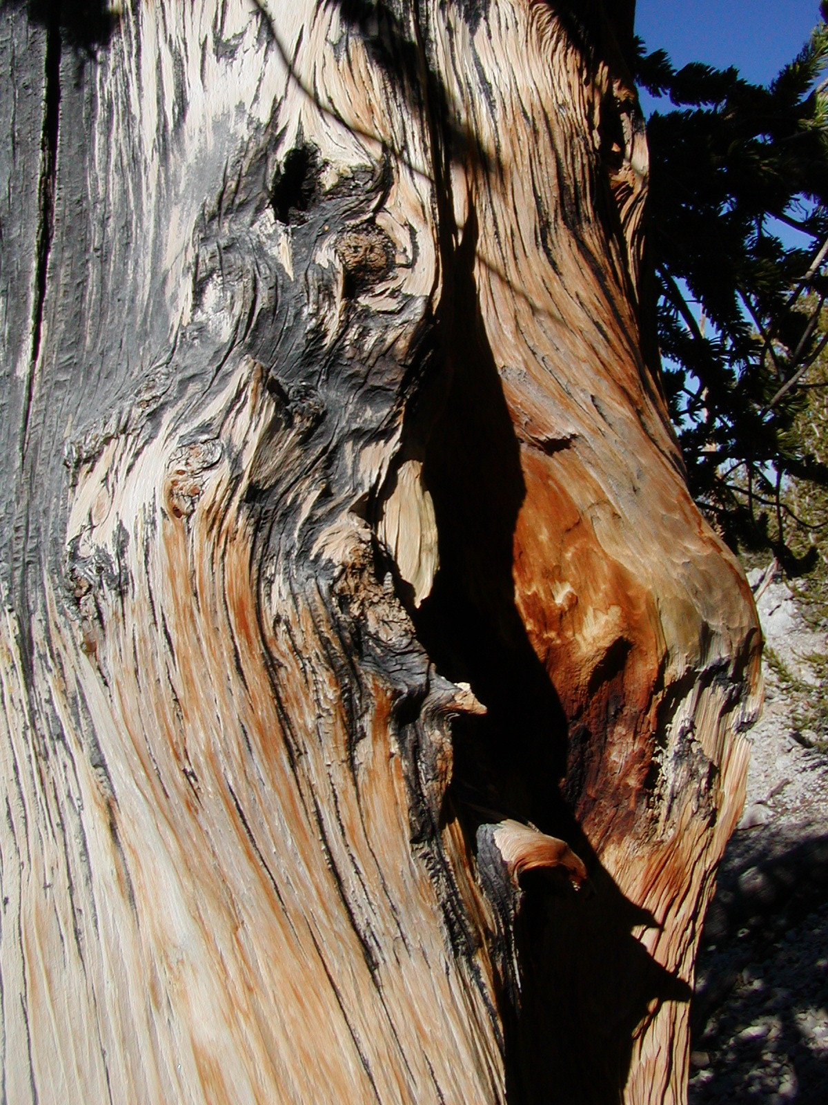 Closeup of a Bristlecone pine.